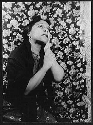 Portrait of Muriel Rahn, as Cora in "The Barrier".